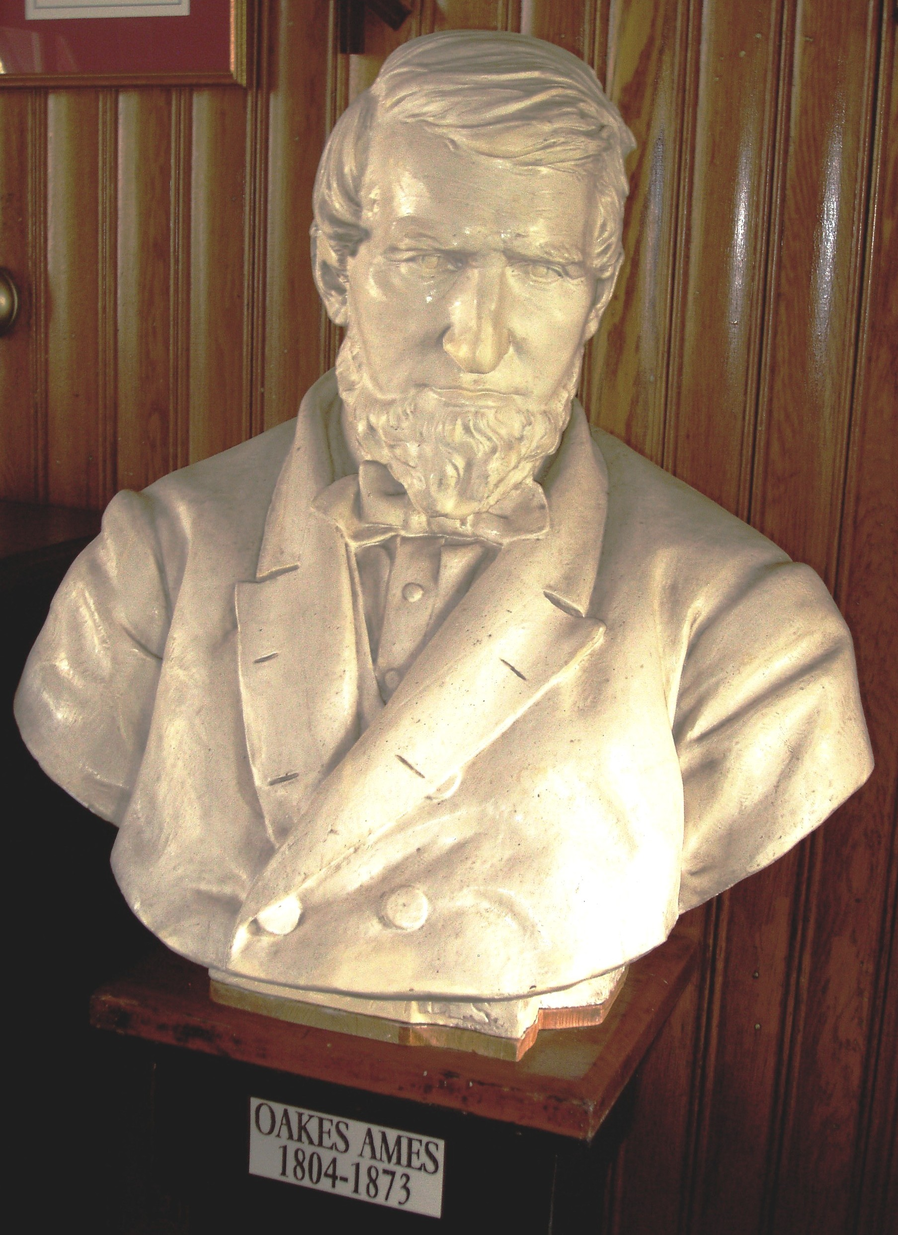 Maquette of Oakes Ames (1804-1873), industrialist and philanthropist, North Easton, Massachusetts, USA. This sculpture is located in the Easton Historical Society; it was made by "EB, North Easton" in the early 1870s. It is unclear if this portrait was ever covered by copyright, but if so the copyright has long since expired.